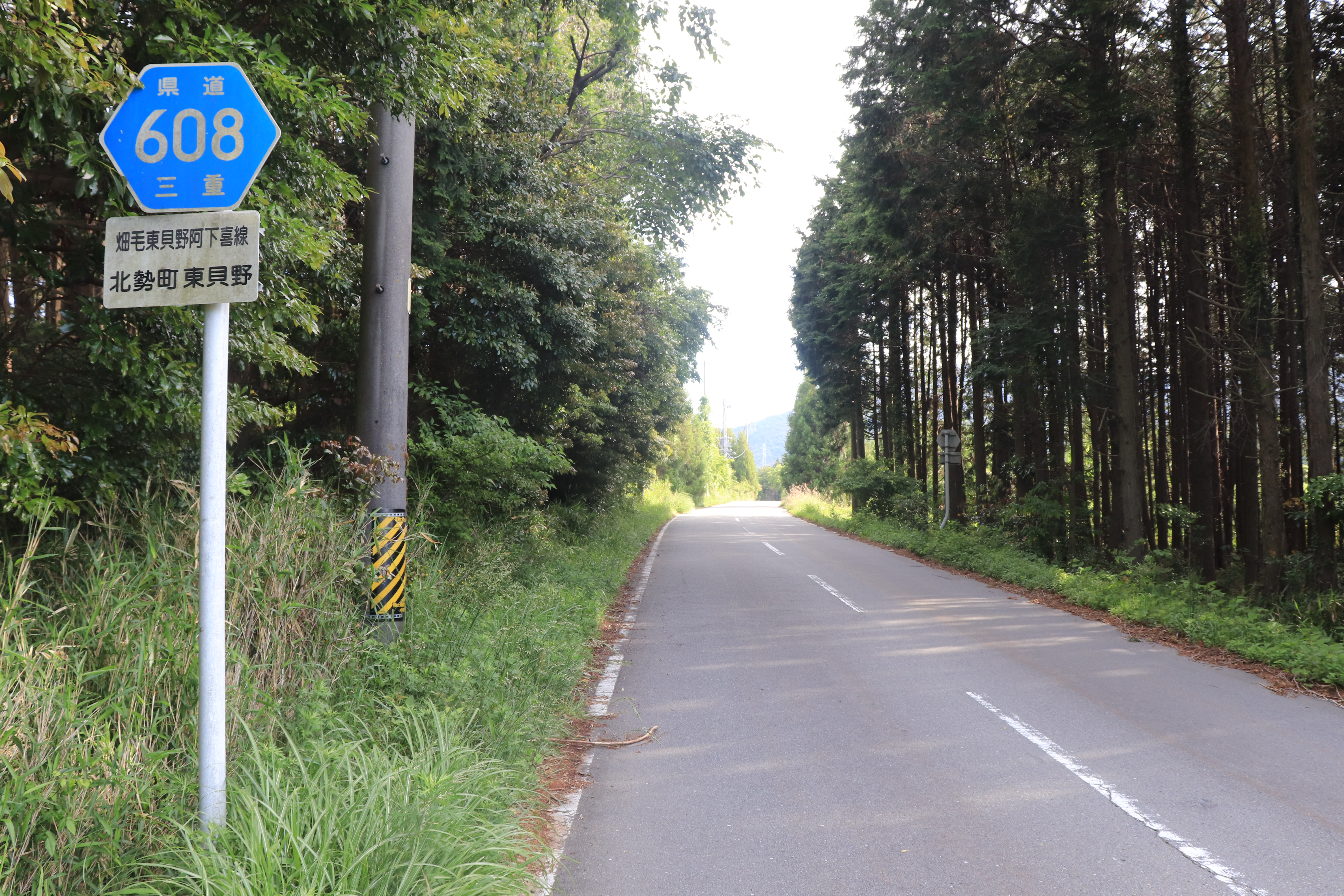 Mie Prefectural Road Route 608 in Higashikaino, Hokuseicho, Inabe, Mie Prefecture, Japan.